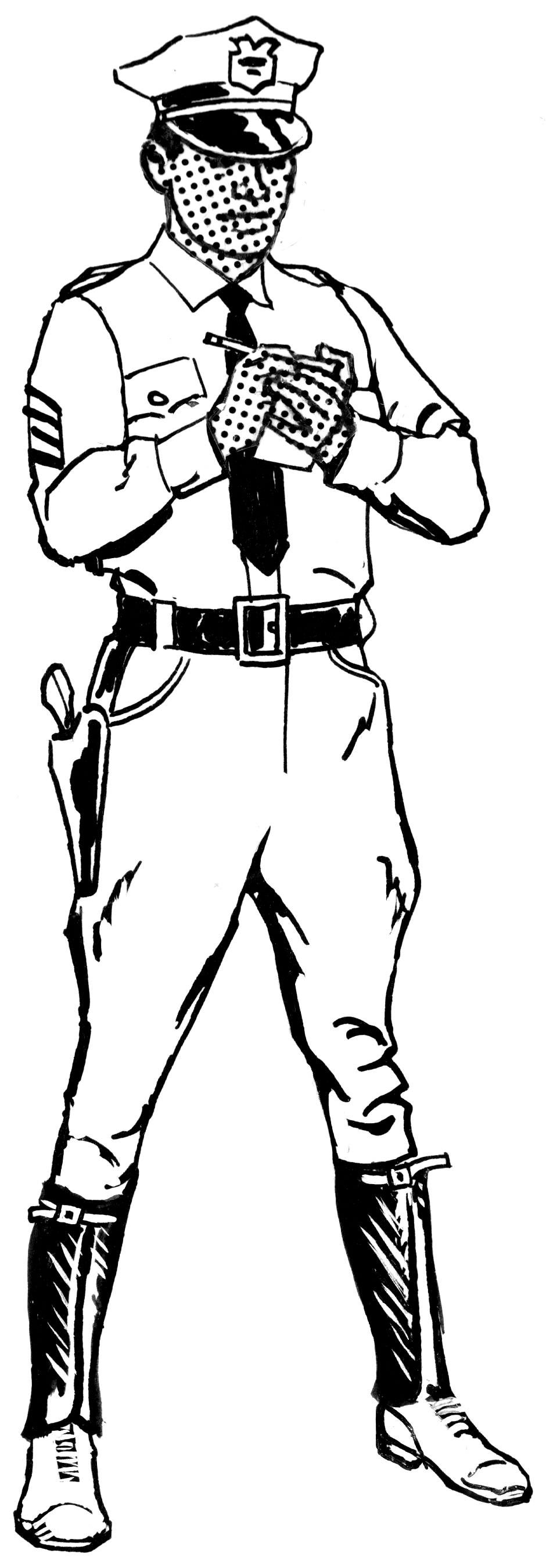 Drawing of a standing man in police uniform. He is writing on a pad of paper. He wears a pistol in a holster at his side and gaiters or leggings on his legs.